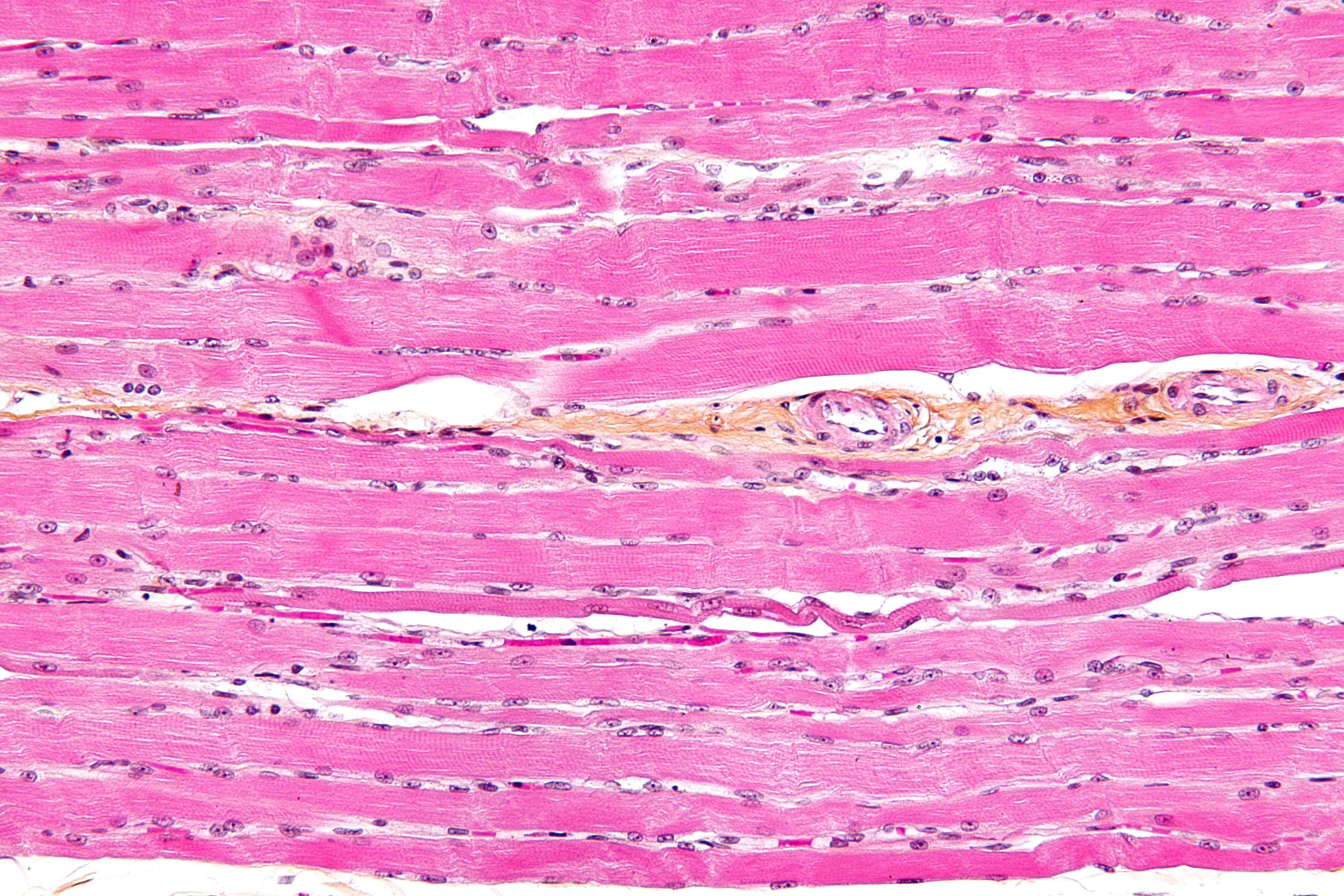 Micrograph of skeletal striated muscle (right fibularis longus). HPS stain.